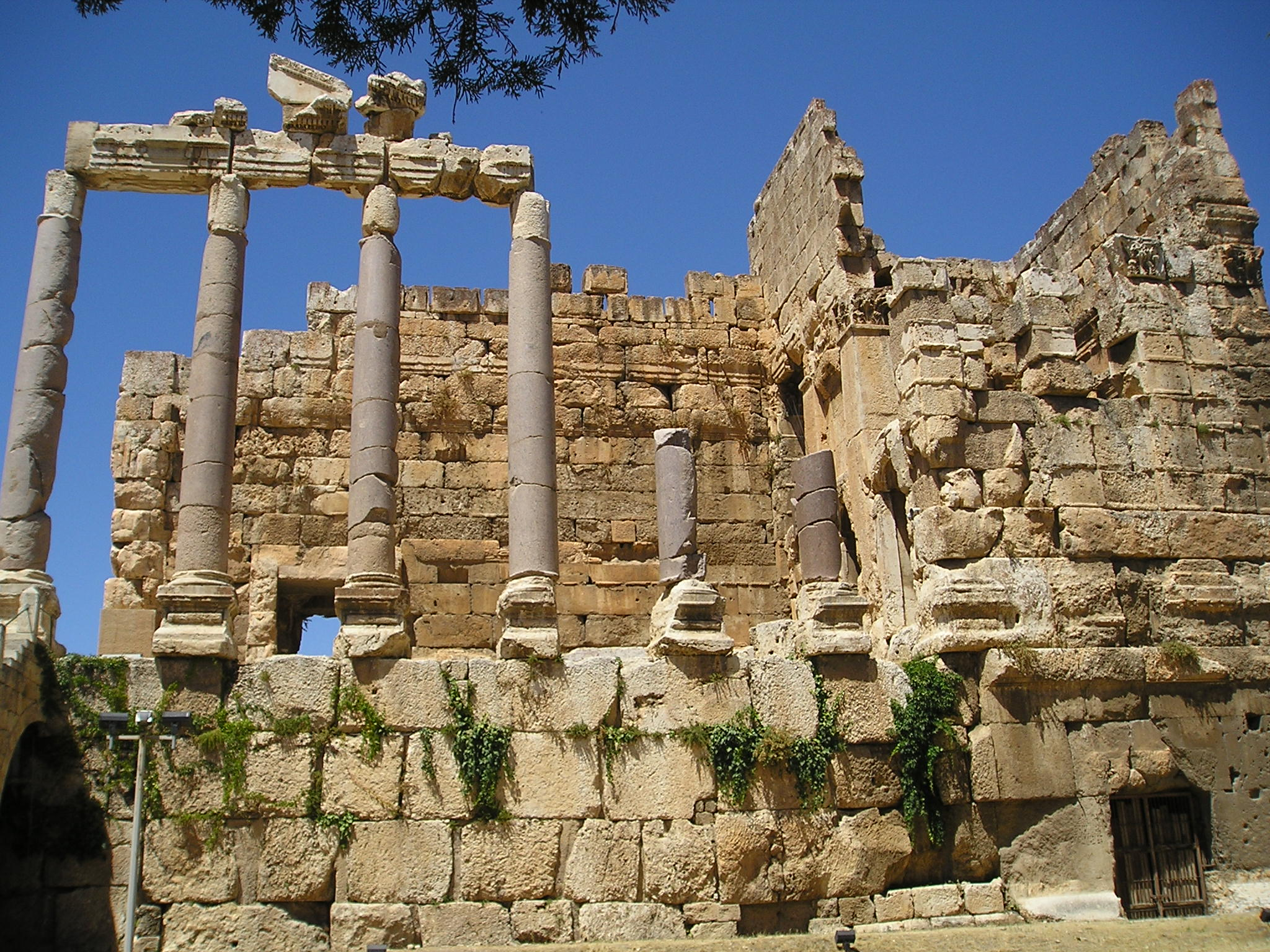 Baalbek, Lebanon - propylaea at the entrance of the site